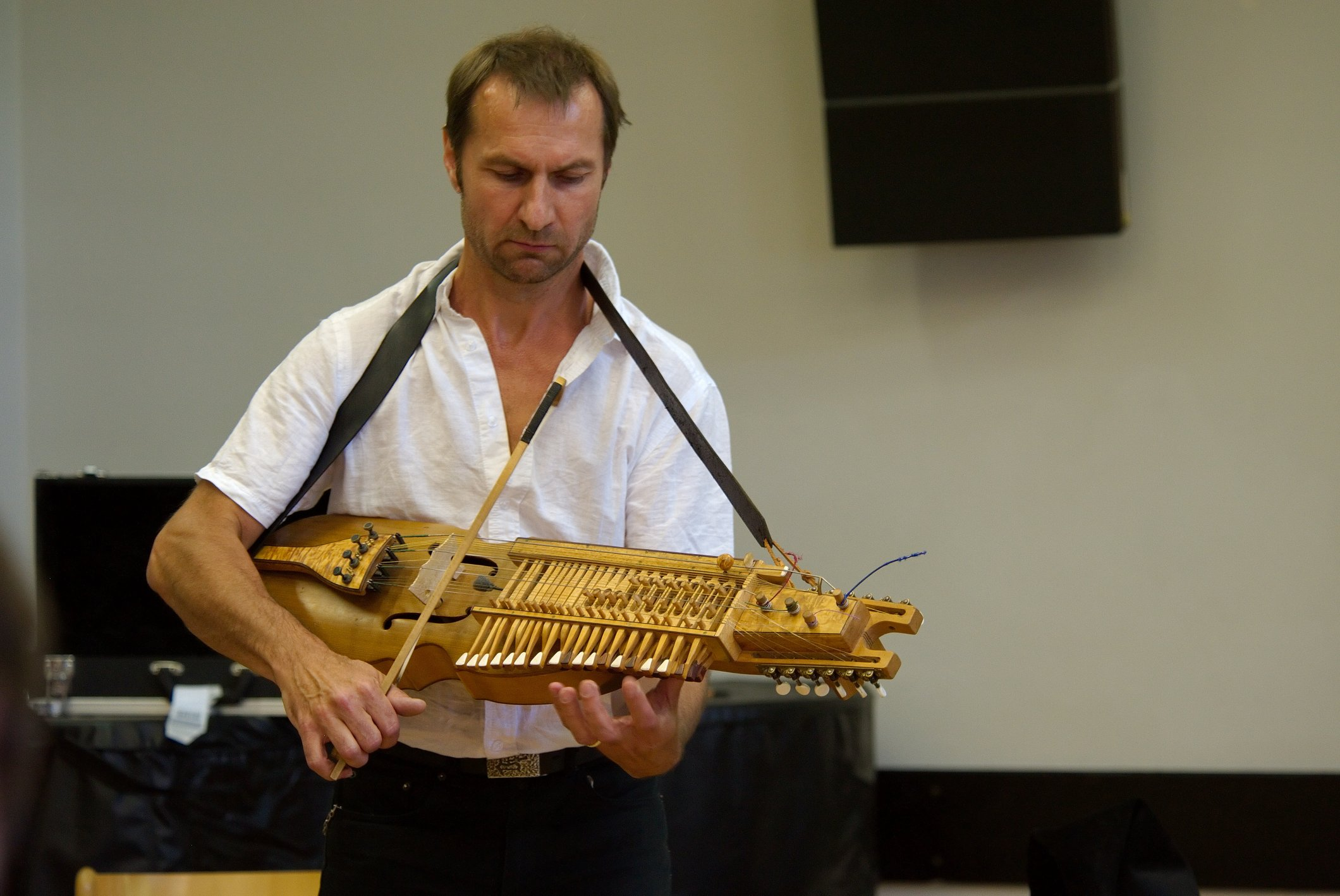 Alban Faust, Swedish Folk Musician and Instrument Maker, at a Festival in Austria 2009